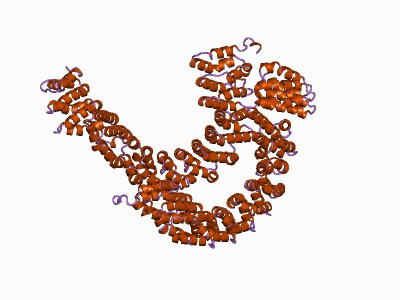 Cartoon representation of the molecular structure of protein registered with 1b3u code.